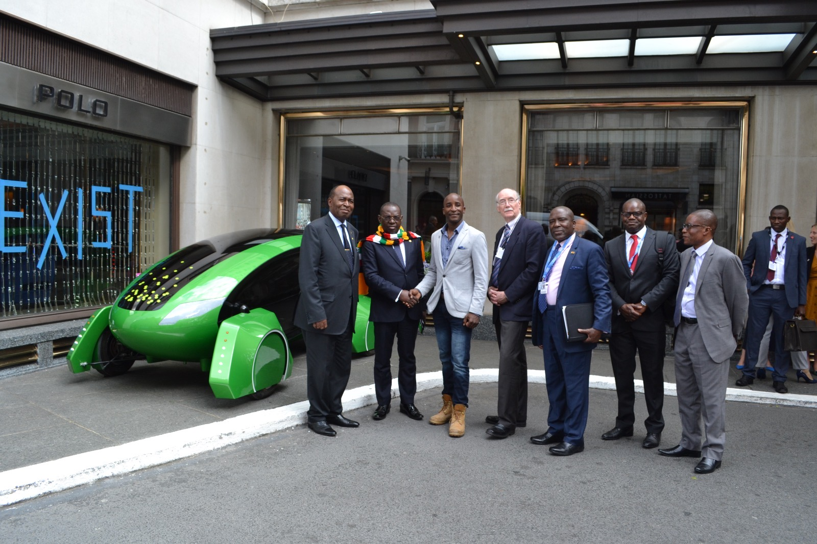 HE Christian Katsande, Hon Minister SB Moyo, William Sachiti and Embassy party